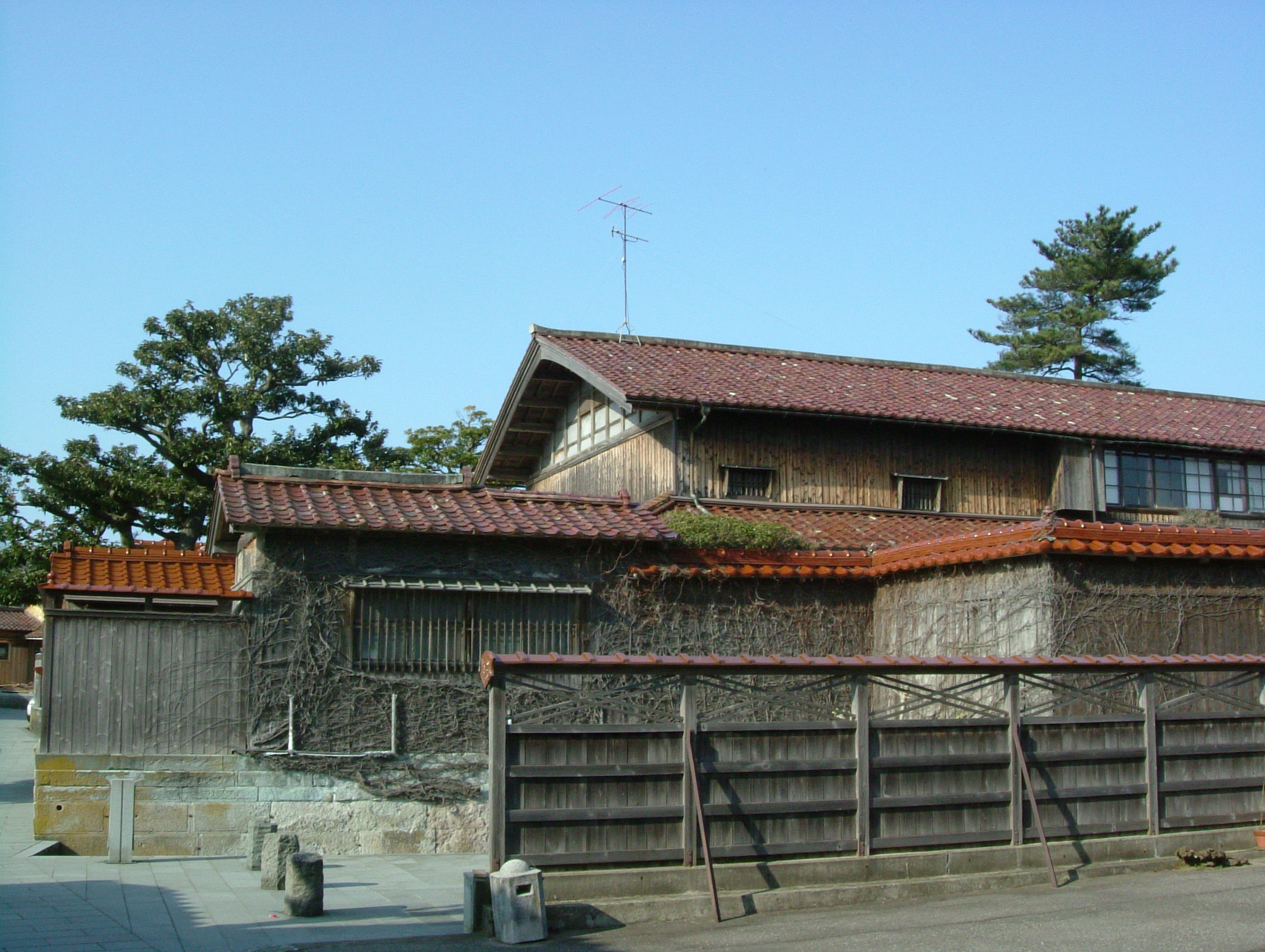 Kitamaebunenosato Museum in Kaga, Ishikawa, Japan